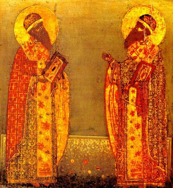 Saint Guriy and Varsonofy